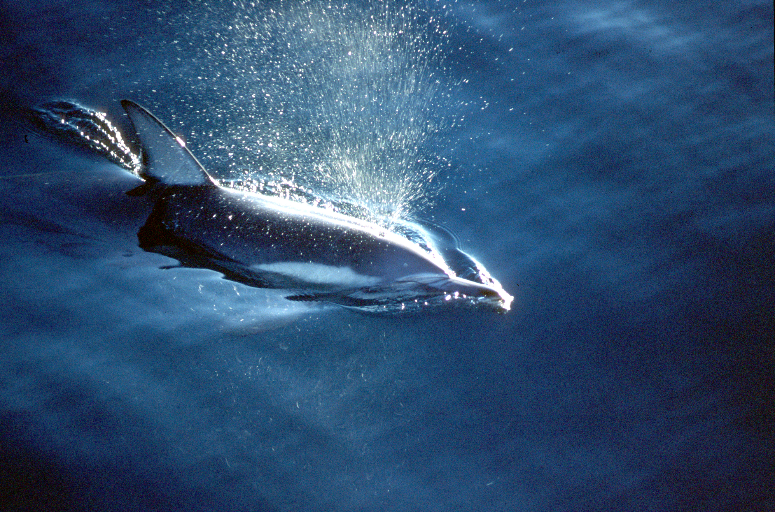 A dolphin as seen from a ship's bow, Indian Ocean, Western Australia. June 1987. Photo credit: Robert Kerton